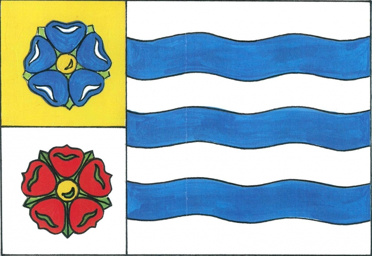 Flag of Bohdalín, Pelhřimov District